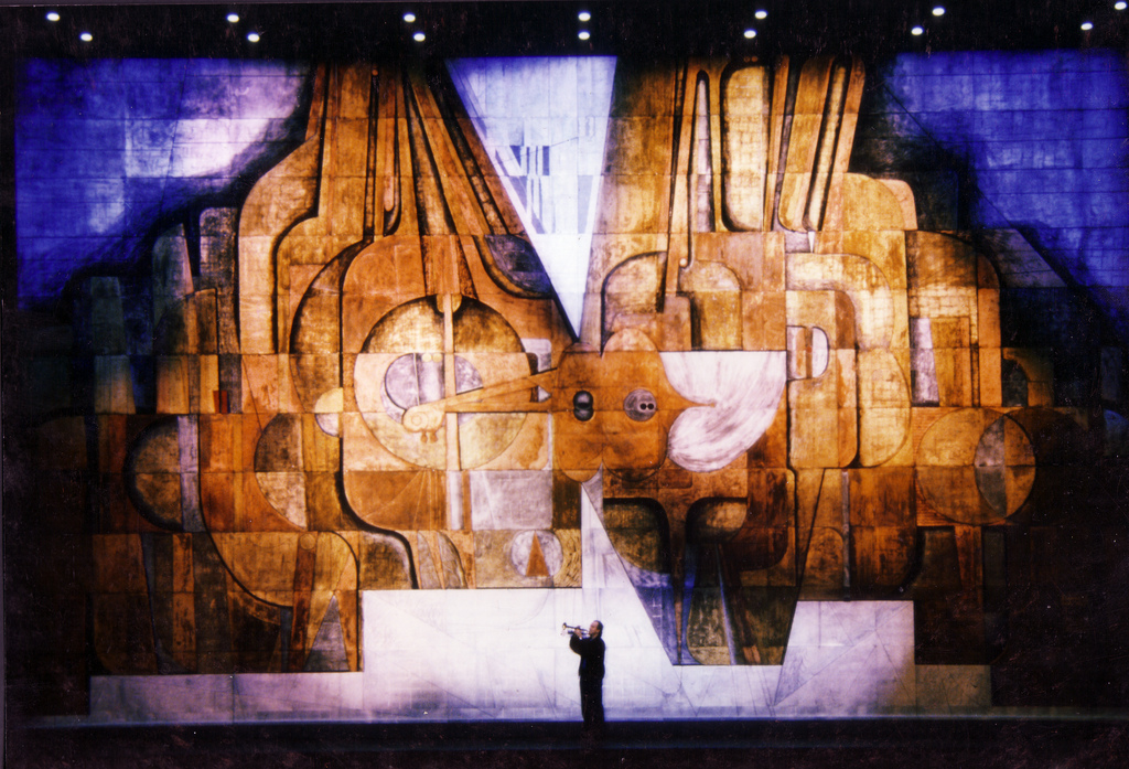 Teatro Carlo Felice - Genova